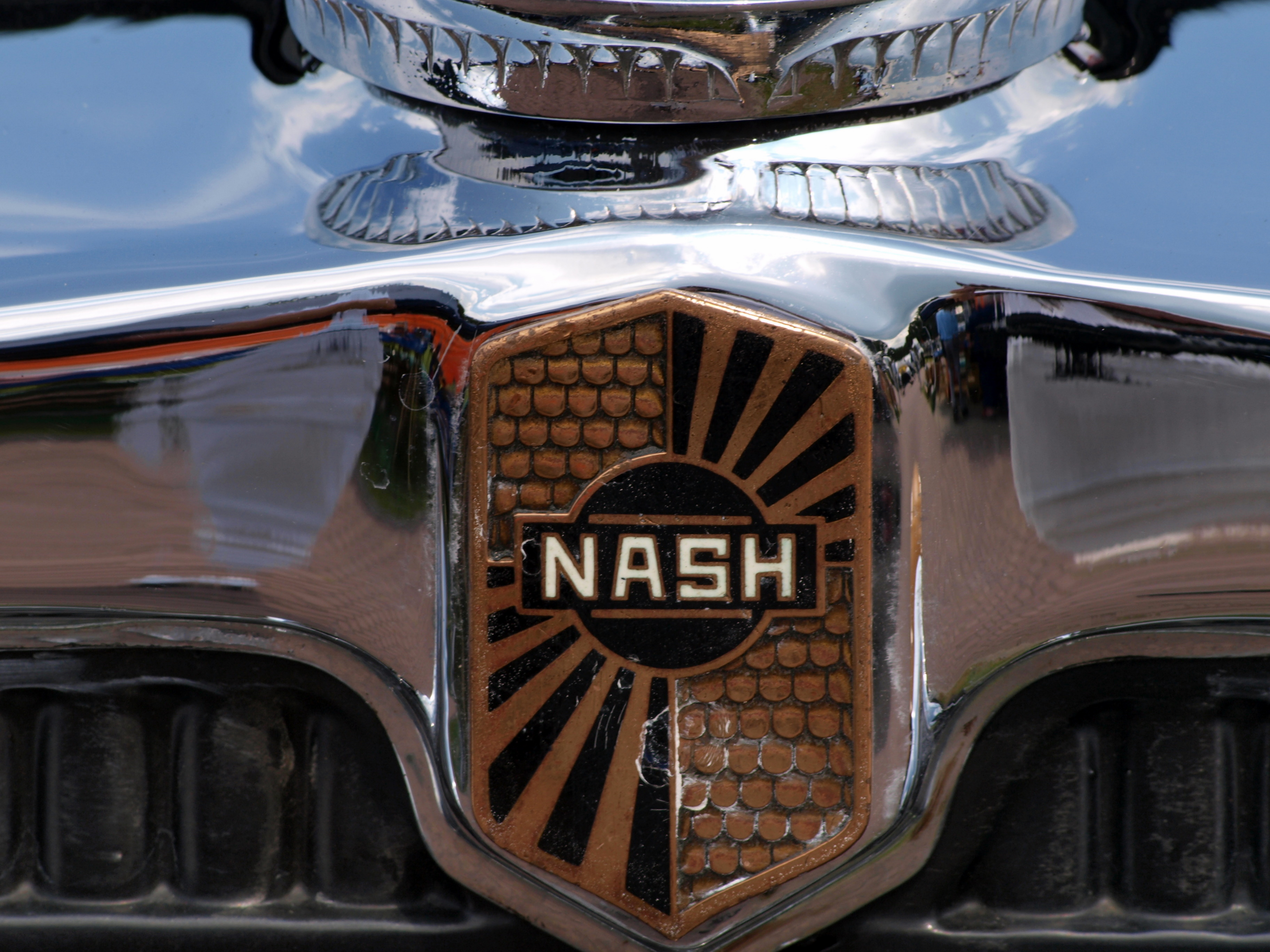 Photographed at the 2010 Autotron Classic car meeting, Rosmalen, The Netherlands. OLYMPUS DIGITAL CAMERA